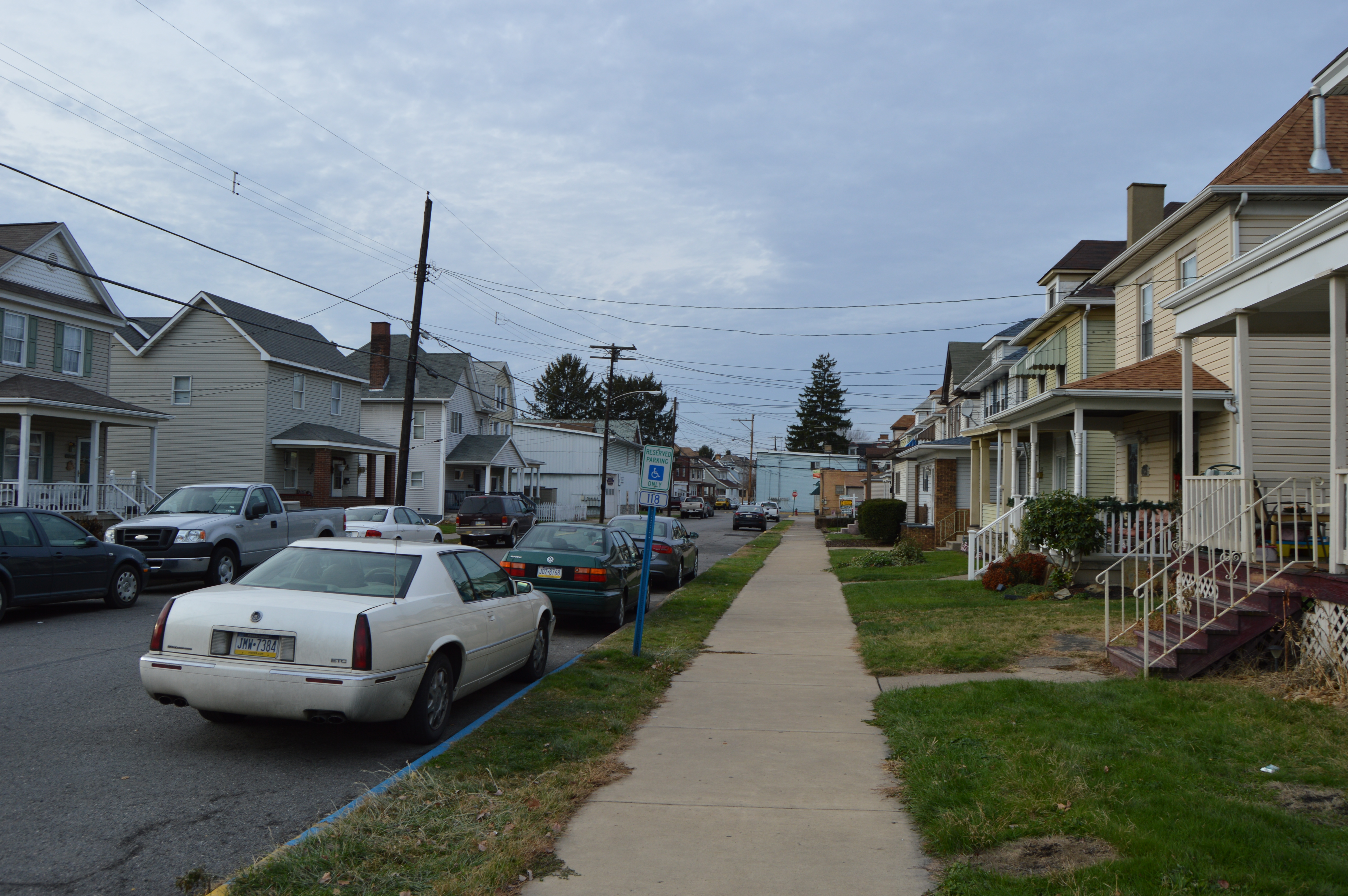 Houses on Second Avenue north of the Twelfth Street intersection in Conway, Pennsylvania, United States.